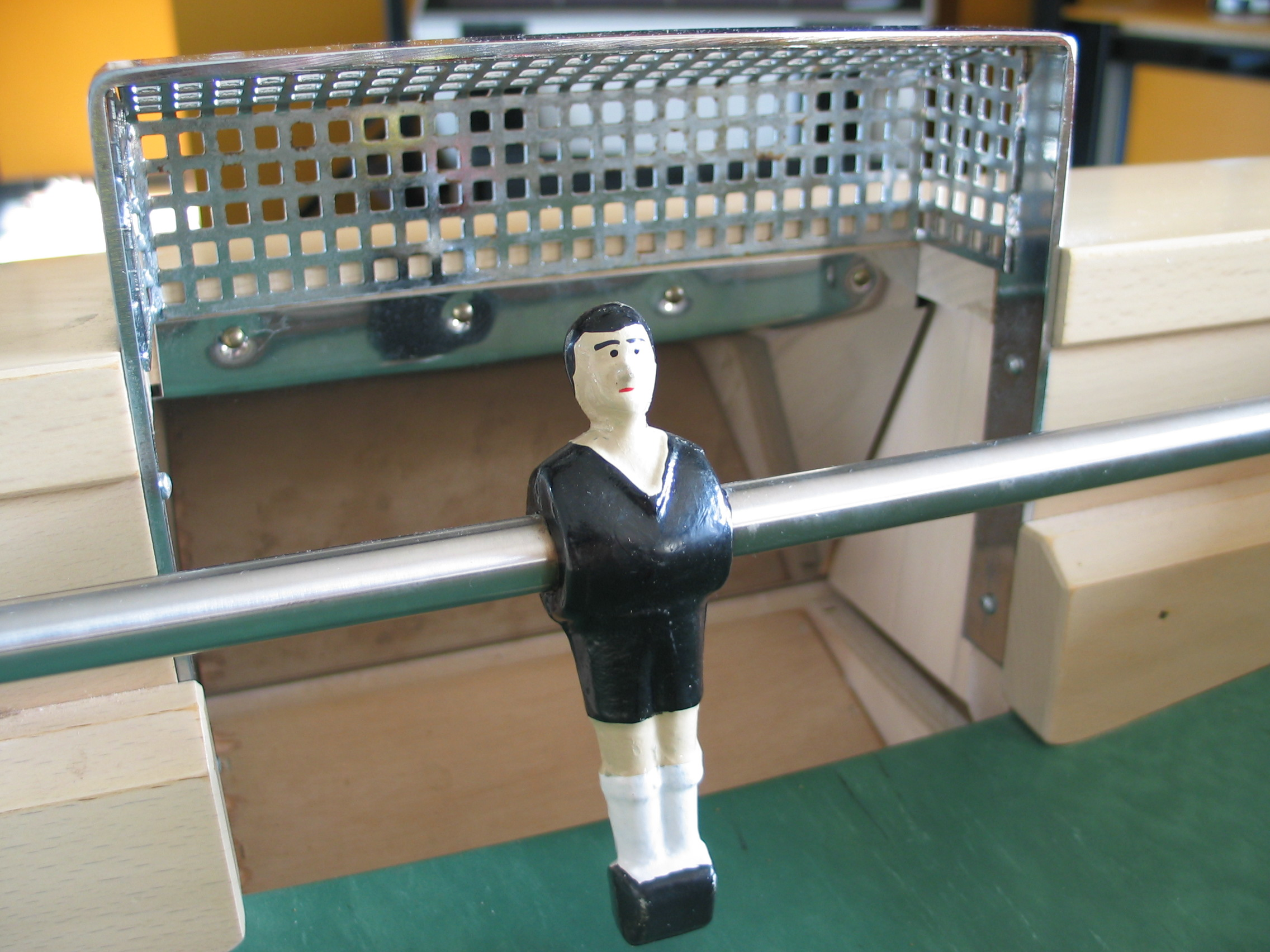 A PETIOT table football goalkeeper